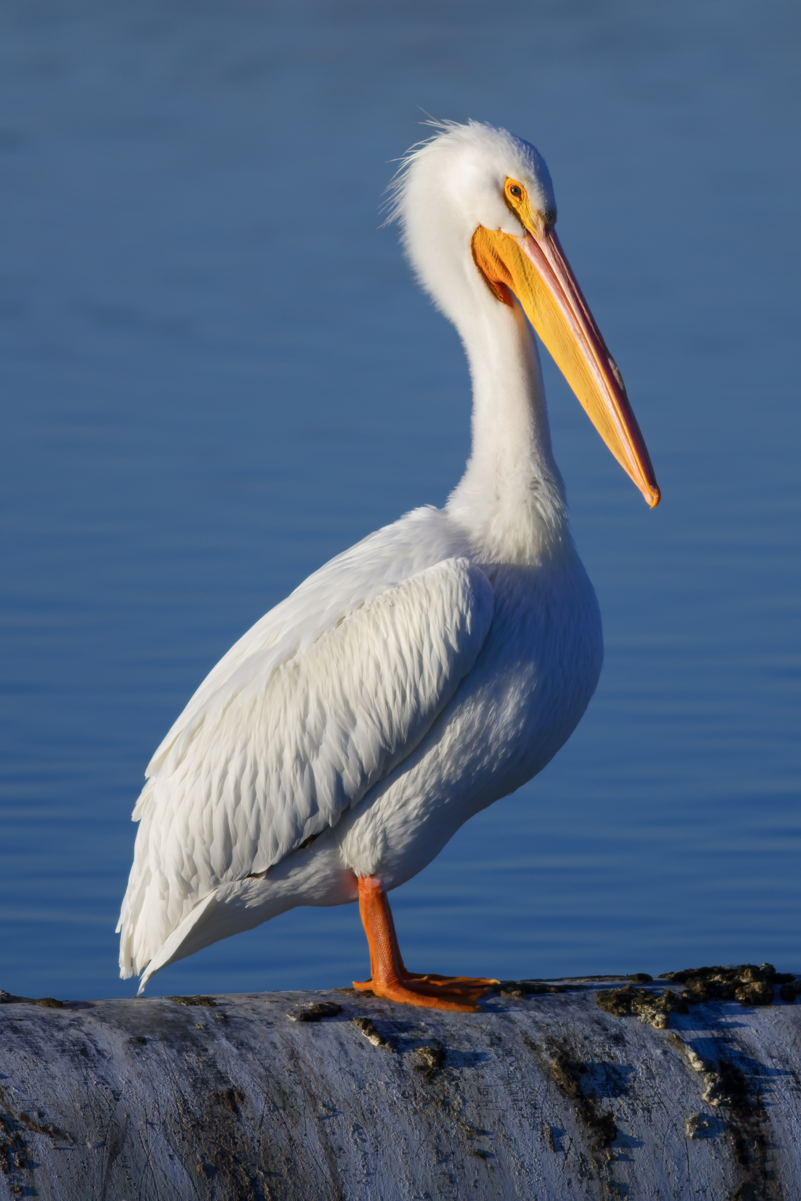 Adult American White Pelican (Pelecanus erythrorhynchos) in nonbreeding plumage at Las Gallinas Wildlife Ponds, San Rafael, Marin County, California.